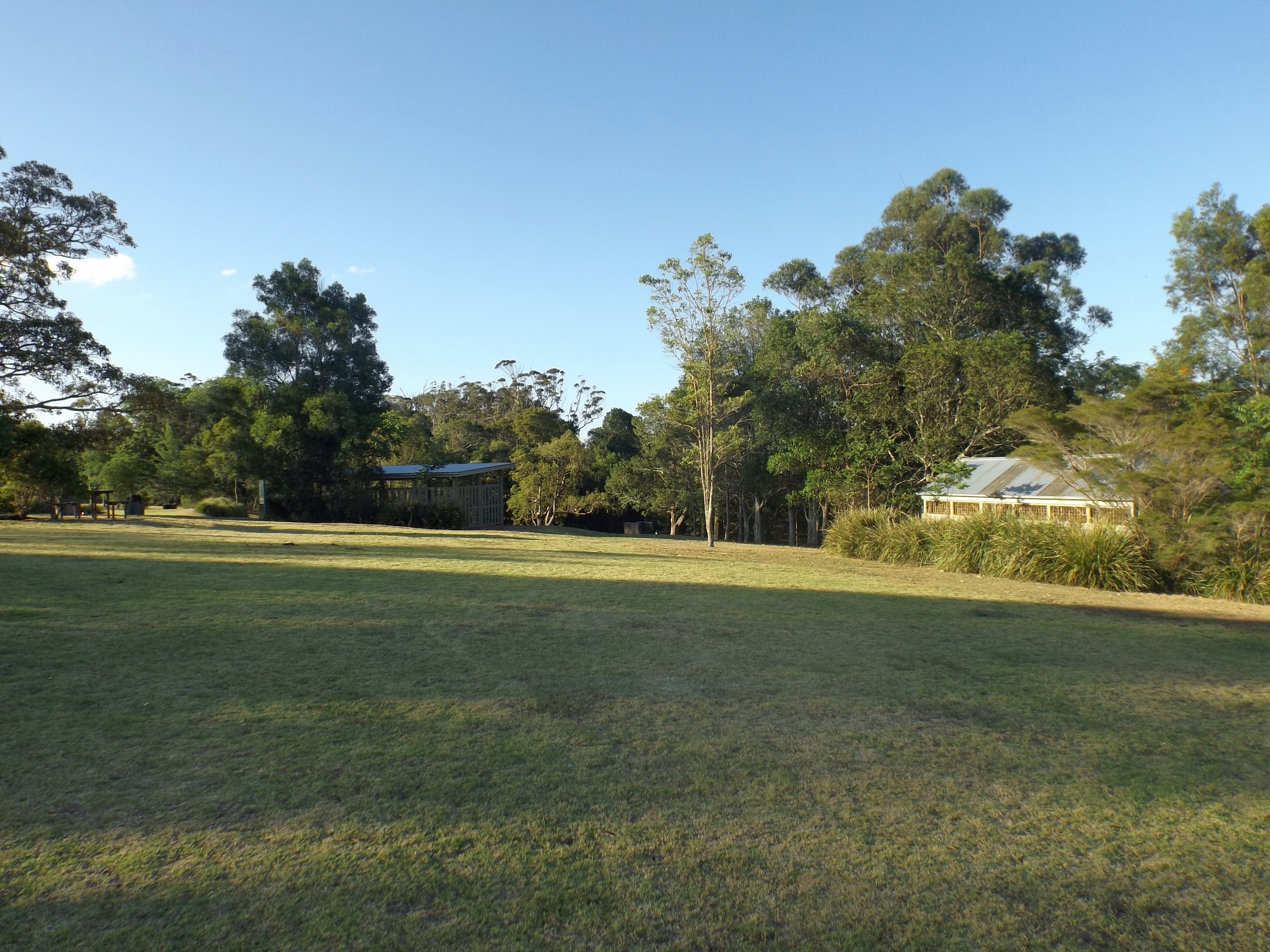 Photo of the picnic area at Ravensbourne National Park at Ravensbourne, Queensland, Australia.